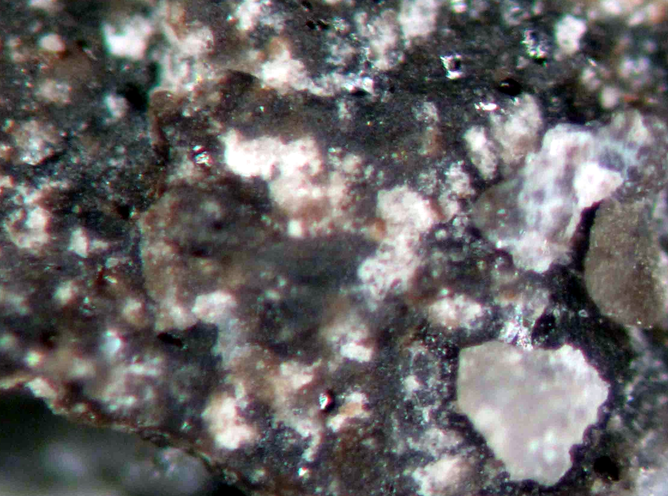 Cadomin Formation sandstone - microscope photo